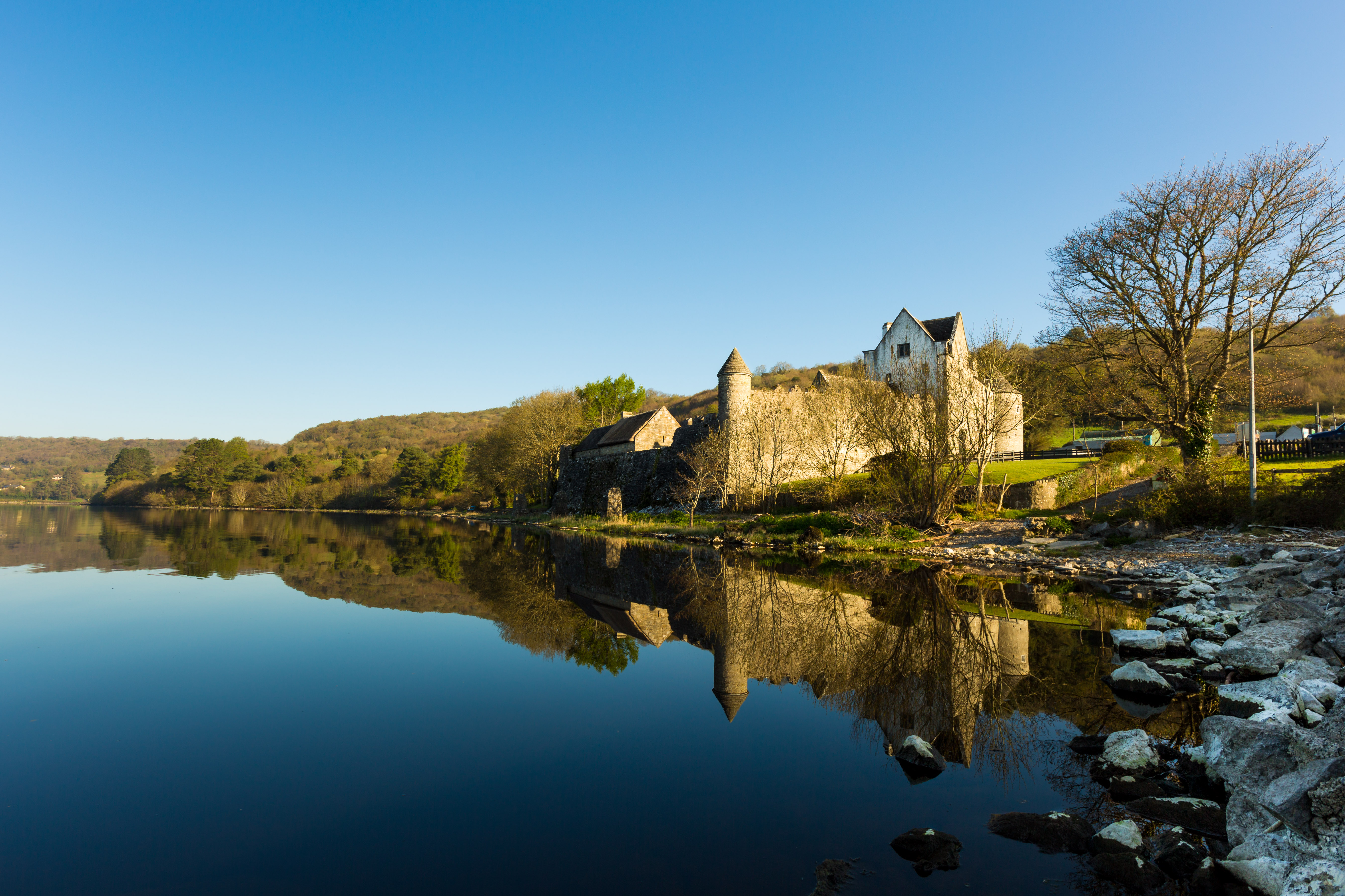 Parkes Castle Castle on a beautiful early morning in April. I was late for my meeting, due to continuously stoping as I went around Lough Gill.